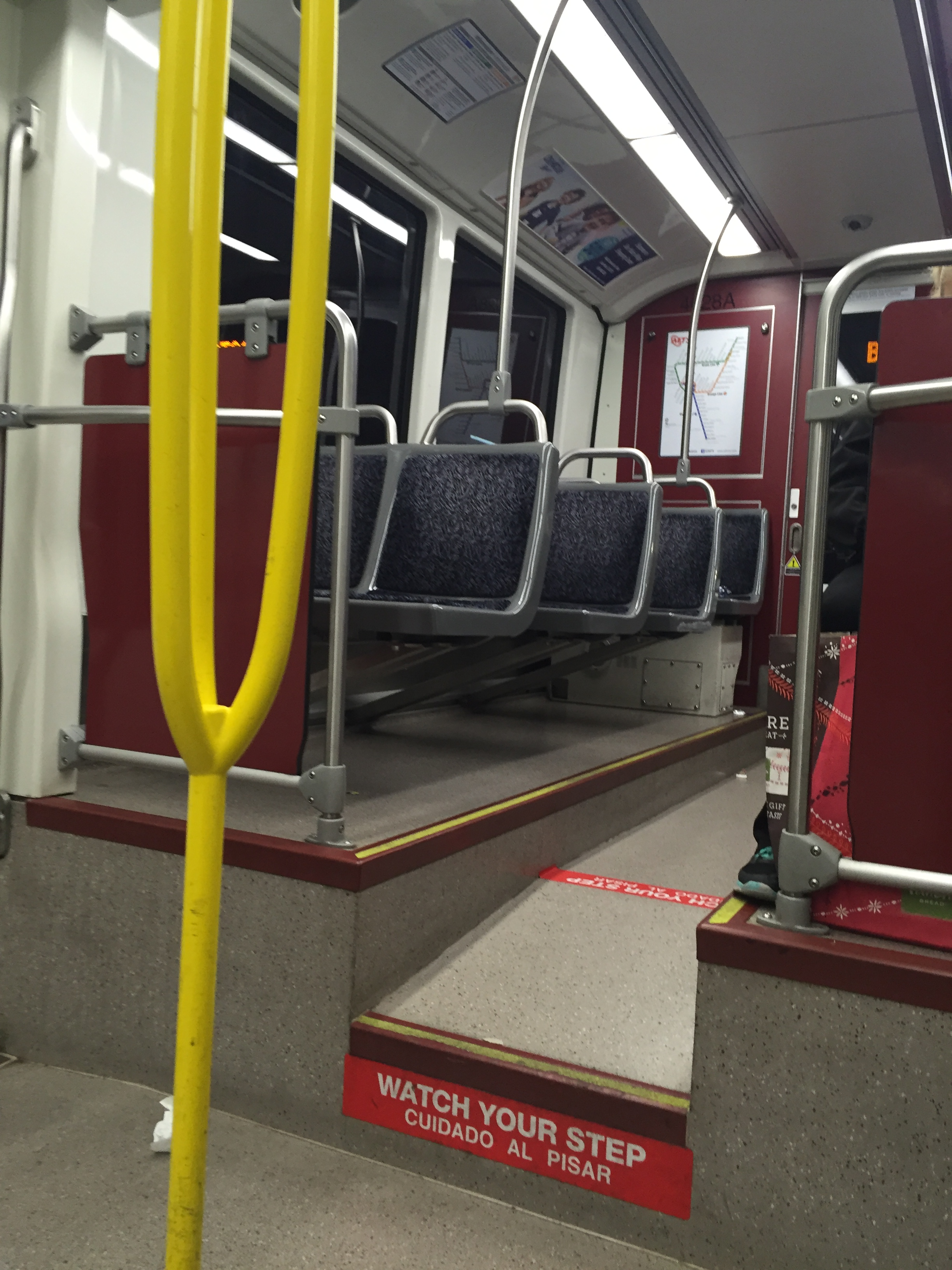 Inside of San Diego Trolley.